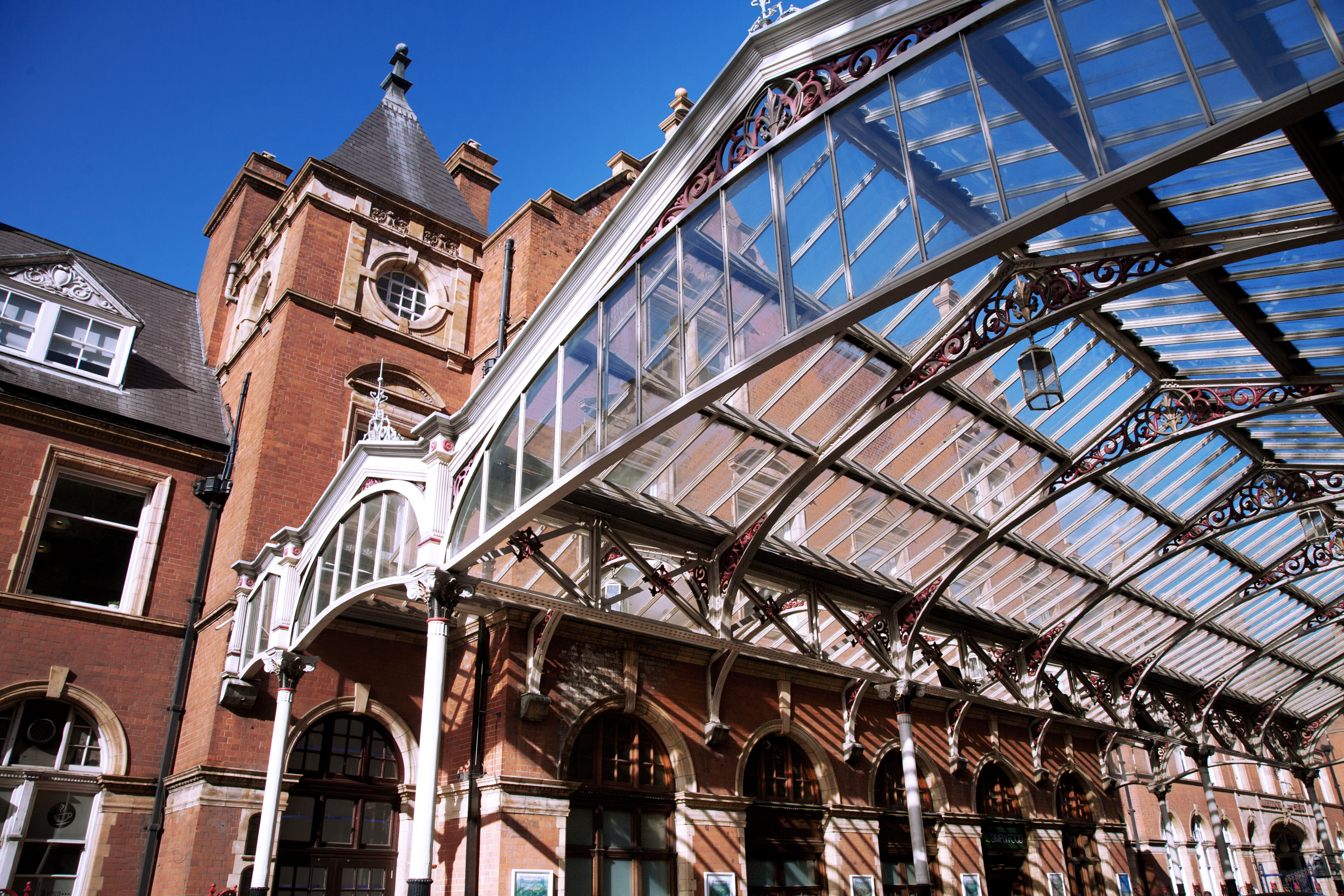 Marylebone Railway Station, London, UK